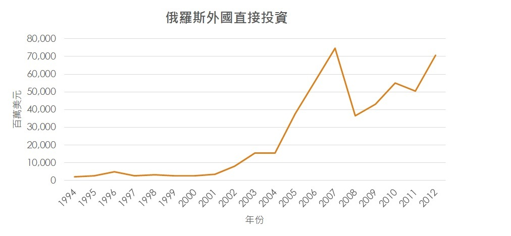 Annual inflow FDI in Russian Federation